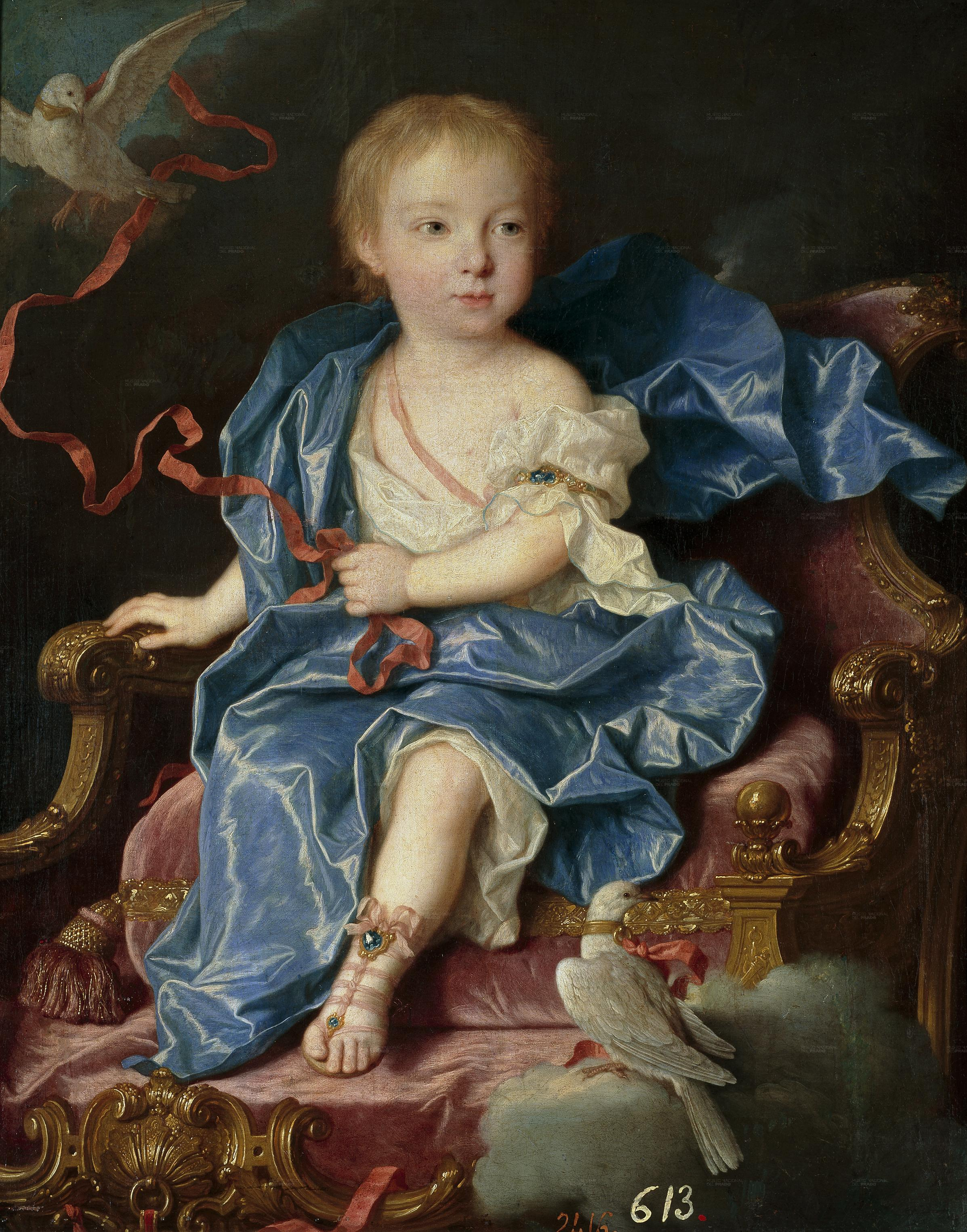 Maria Antonia was a mother of 3 rulers of Sardinia. Her currant descendants include the pretending Duke of Parma and the reigning Grand Duke of Luxembourg. They are members of family named the Bourbon's of Parma. She is also an ancestor of the Duke of Bavaria